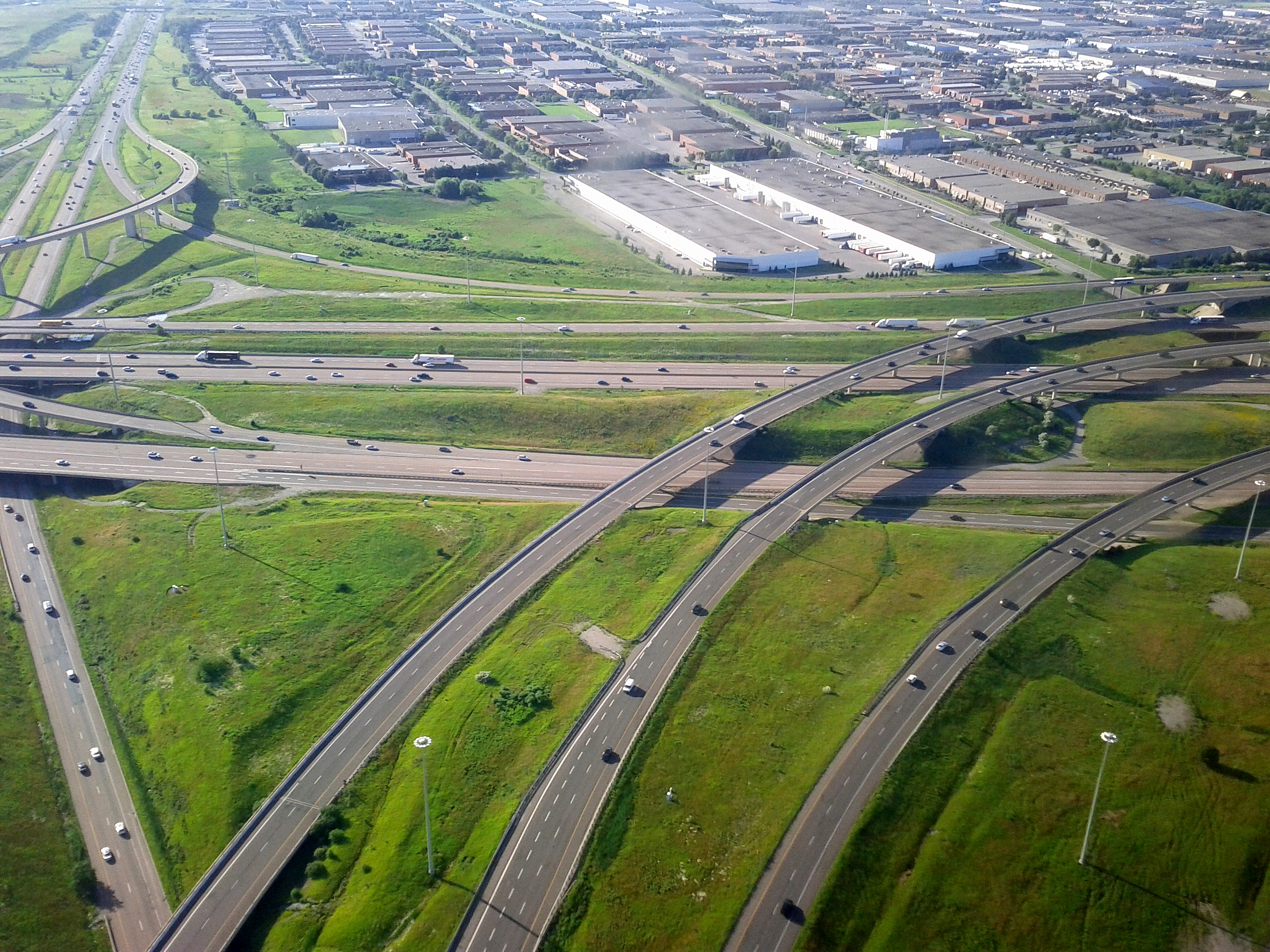 Highway 401 between 403 and 410